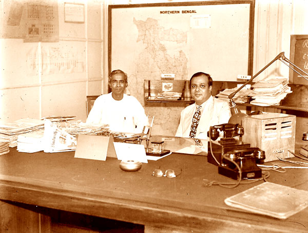 Chief Minister of Bengal Dr Prafulla Chandra Ghosh and Md Ali of finance minister of Bengal before Independesce of India in Undivided Bengal at Writers' Building in 1947